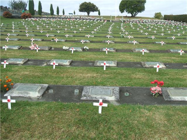 ANZAC Day